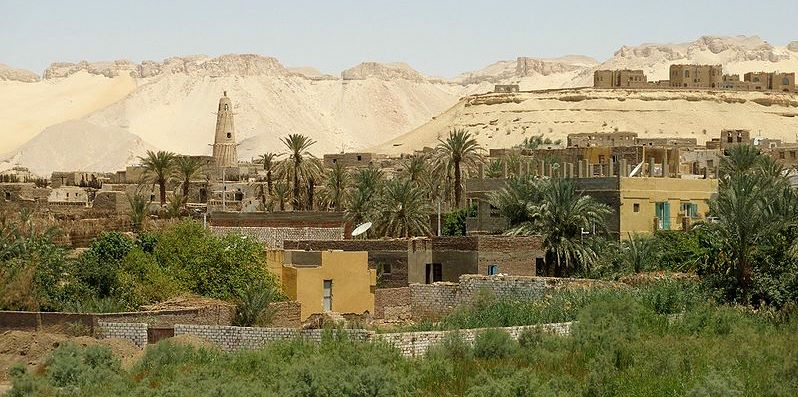 A view of the Dakhla Oasis in Western Egypt. *NOTE: The copyright owner, Vyacheslav Argenberg, requests here that these two lines of text below must be attached to this photo if it is used. *© Vyacheslav Argenberg *